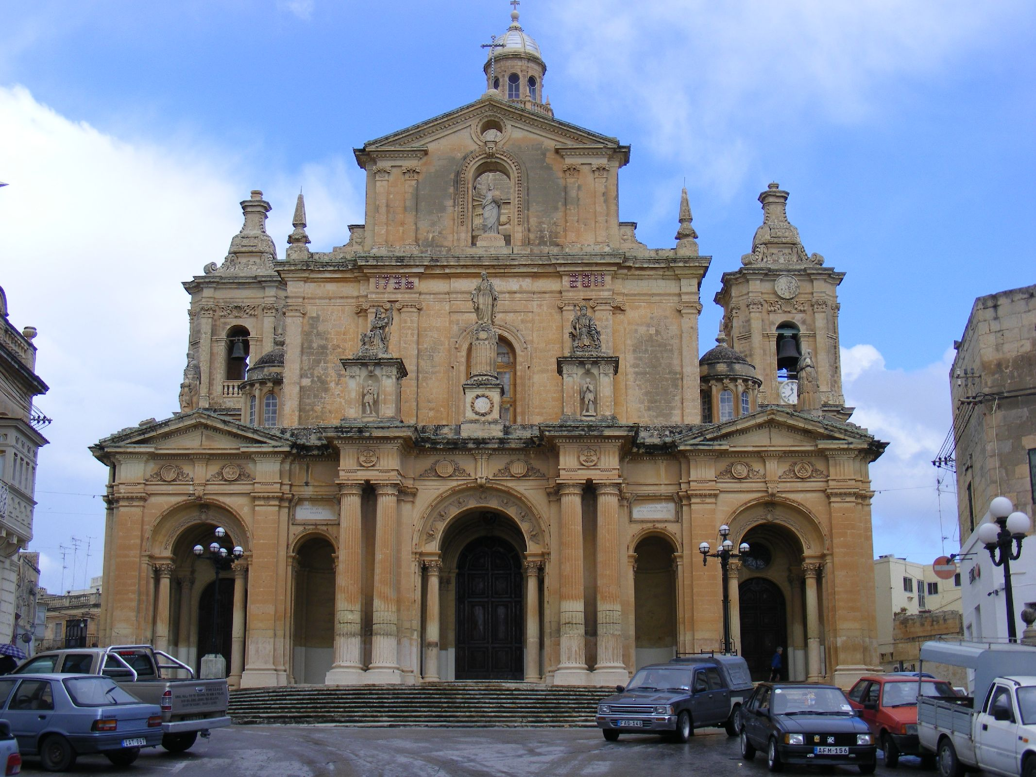 Church of St Nicholas of Bari , 1676 - 1693 with 19th century portco.